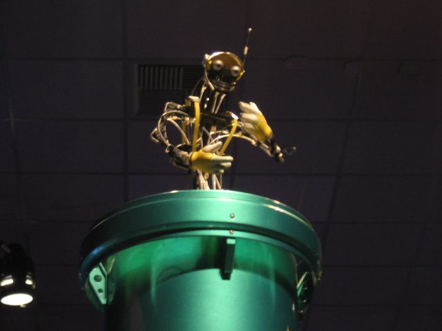 The Tom Morrow 2.0 animatronic on his podium.